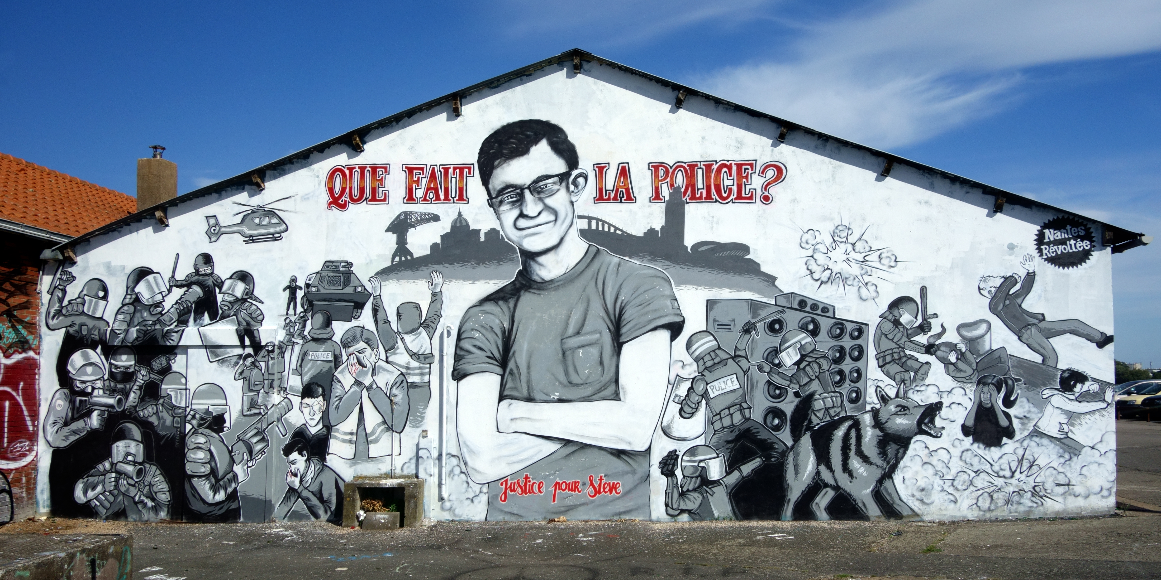 The mural drawing represents the scene of the intervention of the police during the night of 21 to 22 June 2019 to stop a techno party on the Wilson Wharf along the Loire in Nantes for the Fête de la Musique (Anonymous artist - Mention « Nantes Révoltée »)